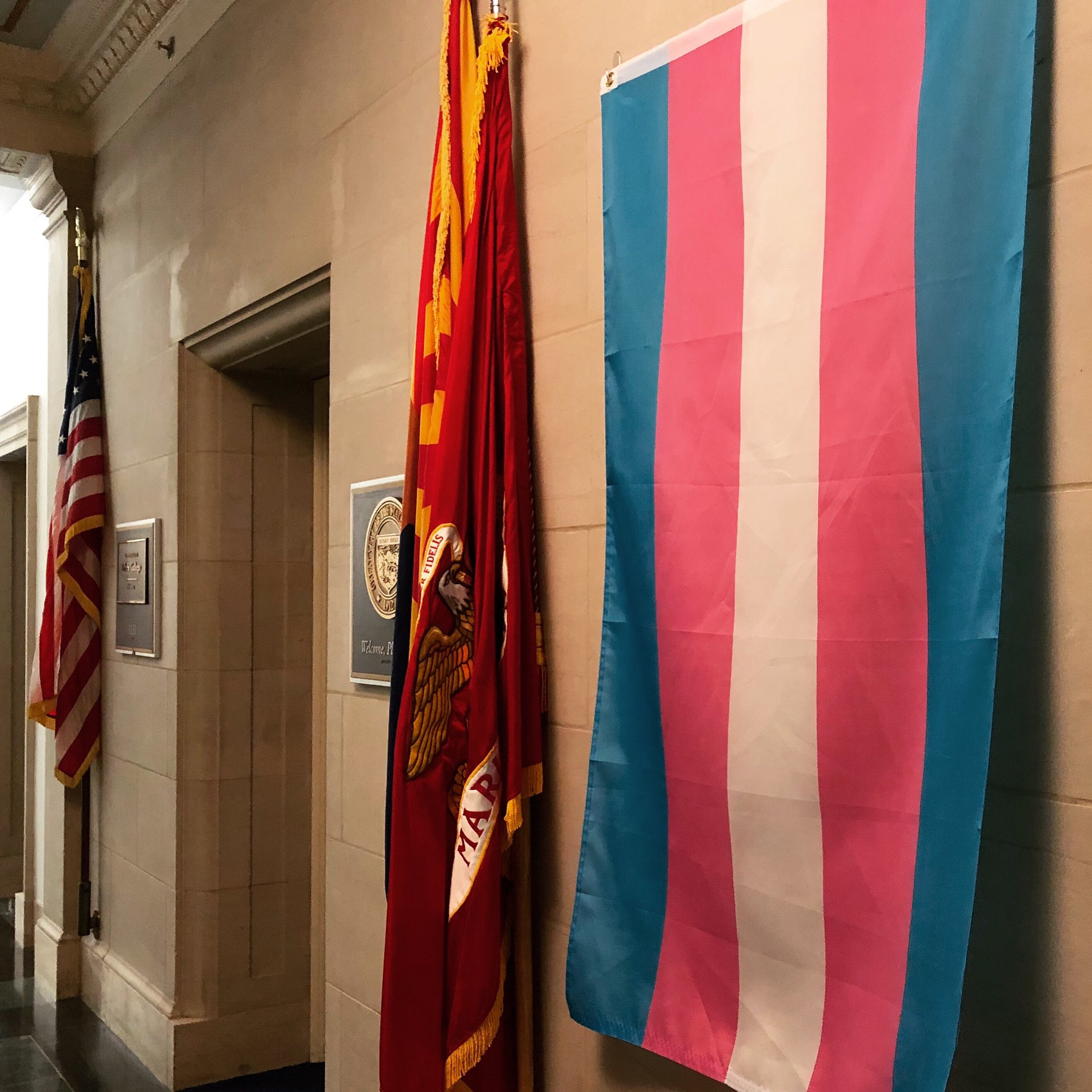 Proud to hang this flag outside my office in Washington for #TransVisibilityWeek and even more proud to vote this week for @RepJoeKennedy’s resolution opposing Trump’s discriminatory ban on transgender service members.